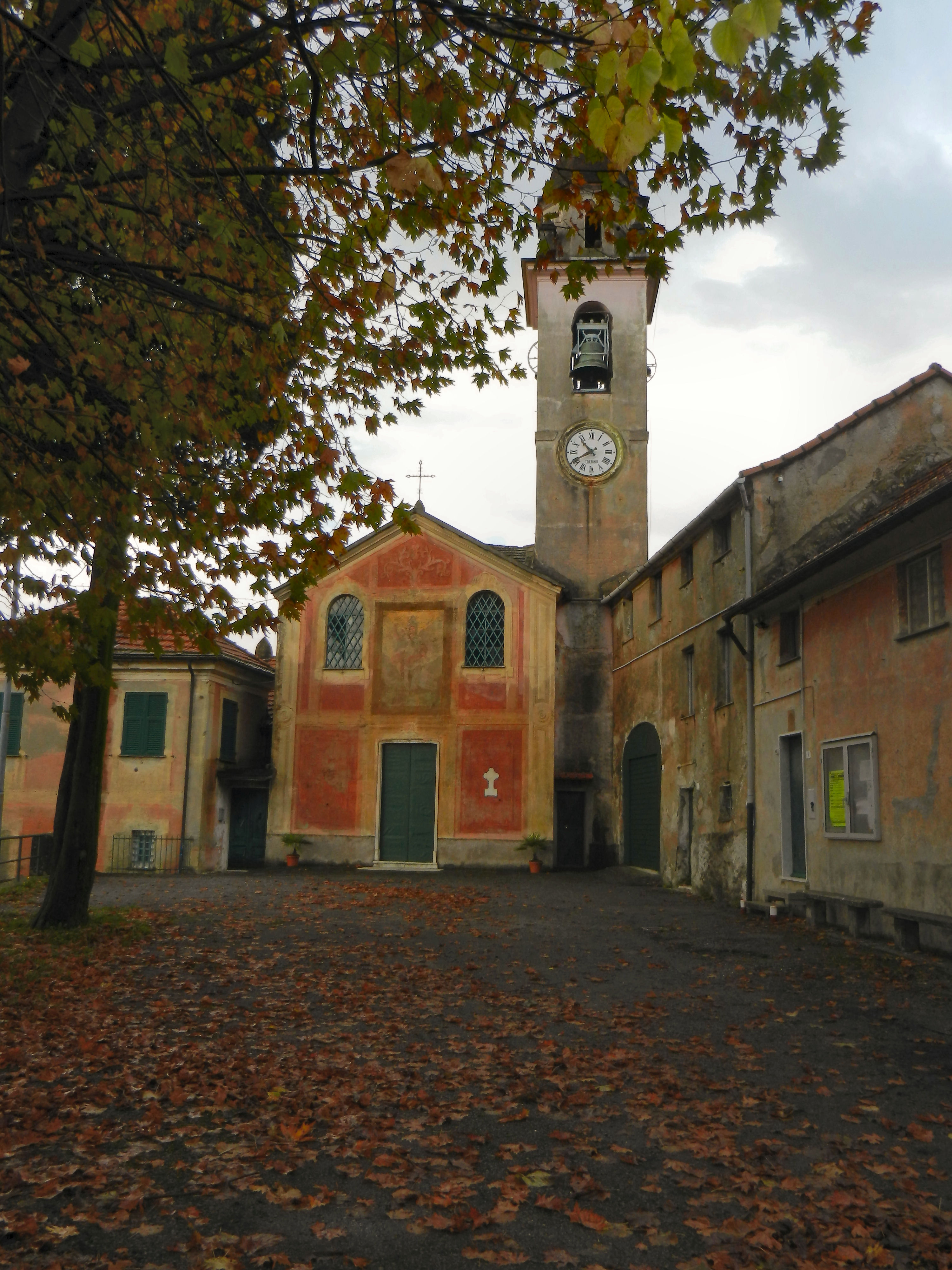 Campomorone (province of Genoa, Italy), the church of Saint Michael the Archangel at Gallaneto